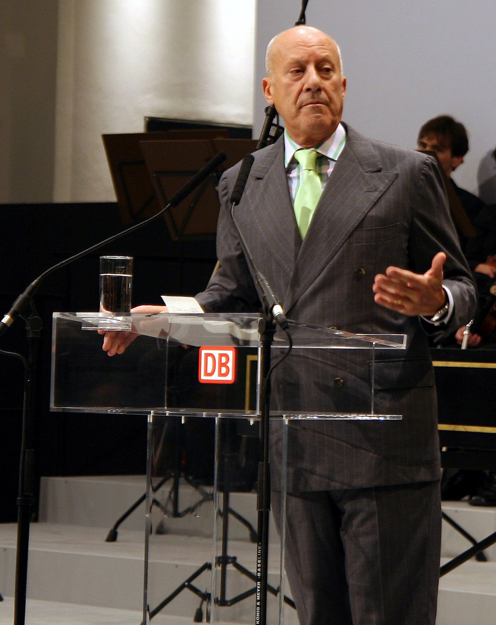 Sir Norman Foster at the inauguration ceremony of Dresden's refurbished central railway station